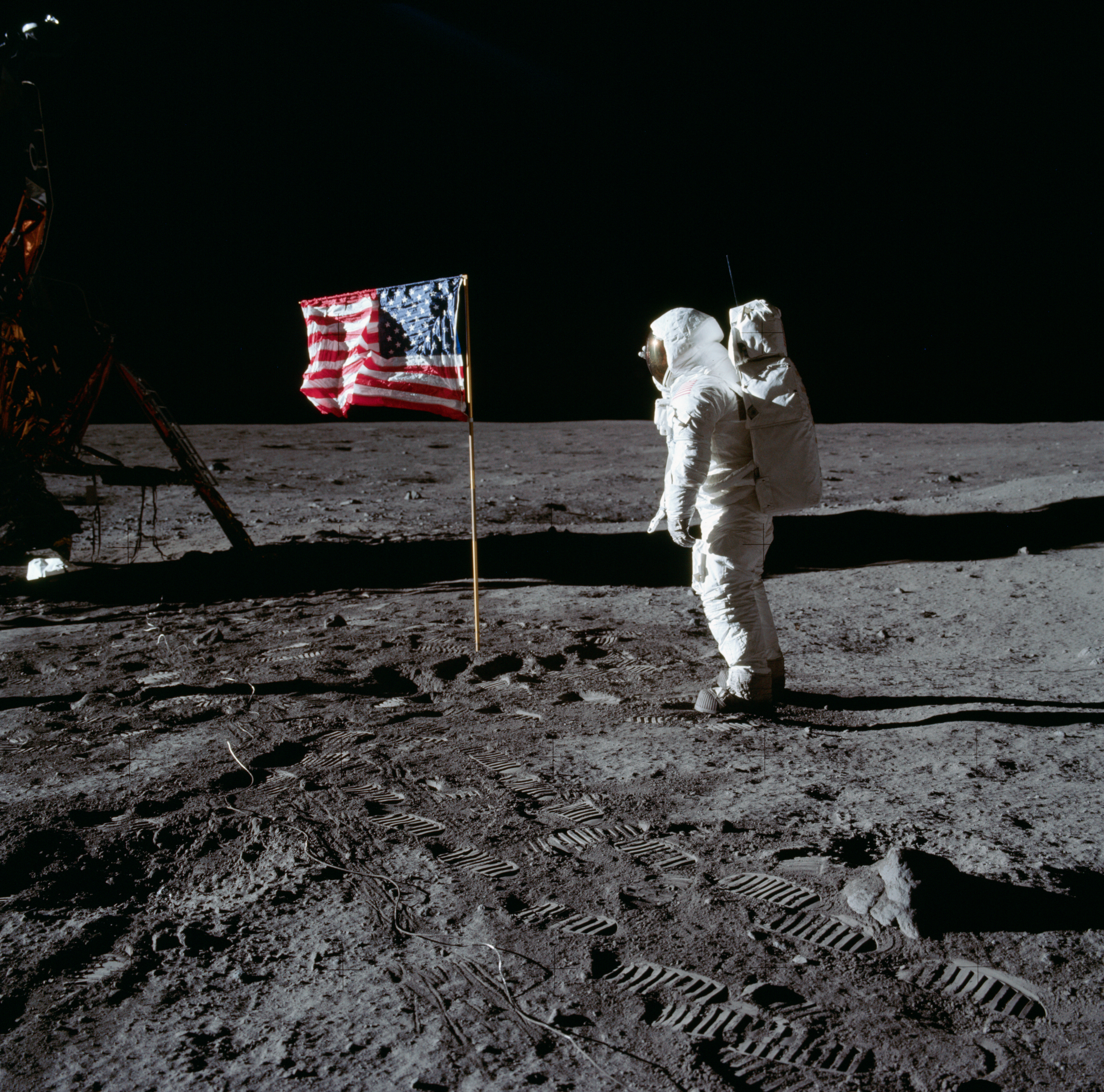 Astronaut Buzz Aldrin salutes the deployed United States flag during an Apollo 11 Extravehicular Activity (EVA) on the lunar surface. The Lunar Module (LM) is on the left, and the footprints of the astronauts are clearly visible in the soil of the Moon. Astronaut Neil A. Armstrong took this picture with a 70mm Hasselblad lunar surface camera.